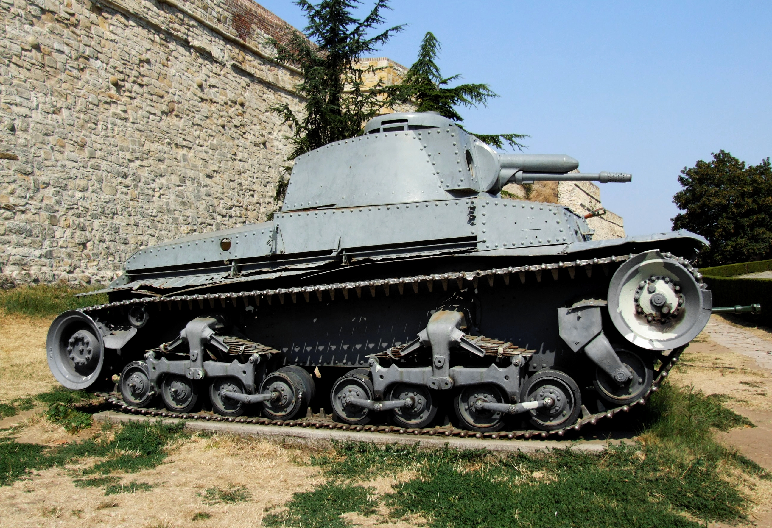 Belgrade Military Museum - Panzerkampfwagen 35(tschechische)